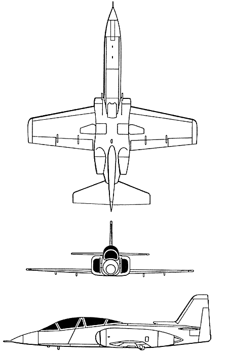 Profil de l'avion taïwanais AIDC AT-3 Tzu-Chiang Profile of taiwanese aircraft AIDC AT-3 Tzu-Chiang